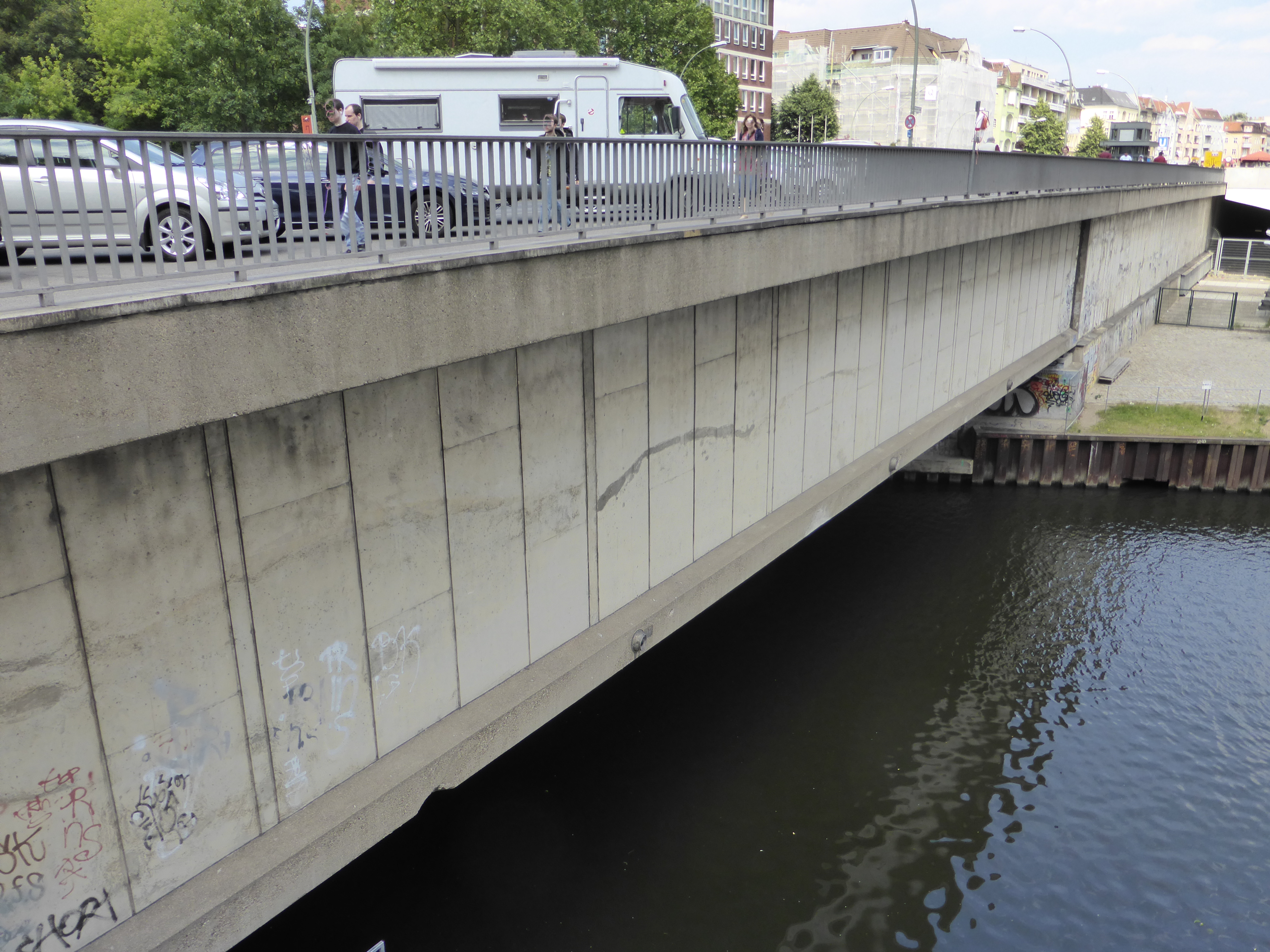 Stubenrauchbrücke, Berlin-Tempelhof. Inside the bridge is the underground station "Ullsteinstraße" of the Berlin underground.